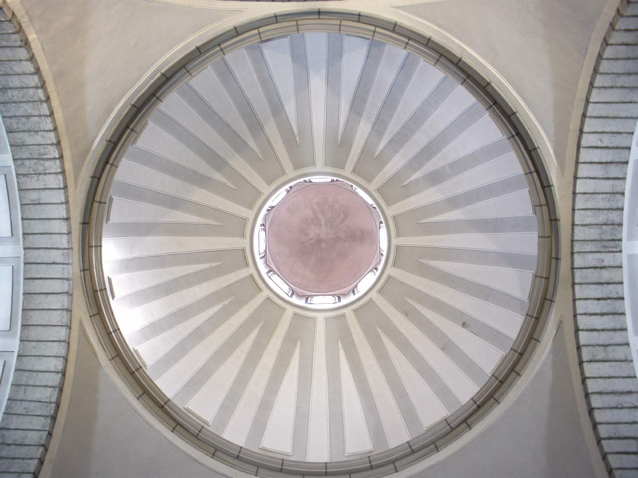 Church of the Anunciación, Santander